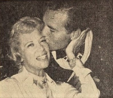 Dinah Shore with George Montgomery, 1960